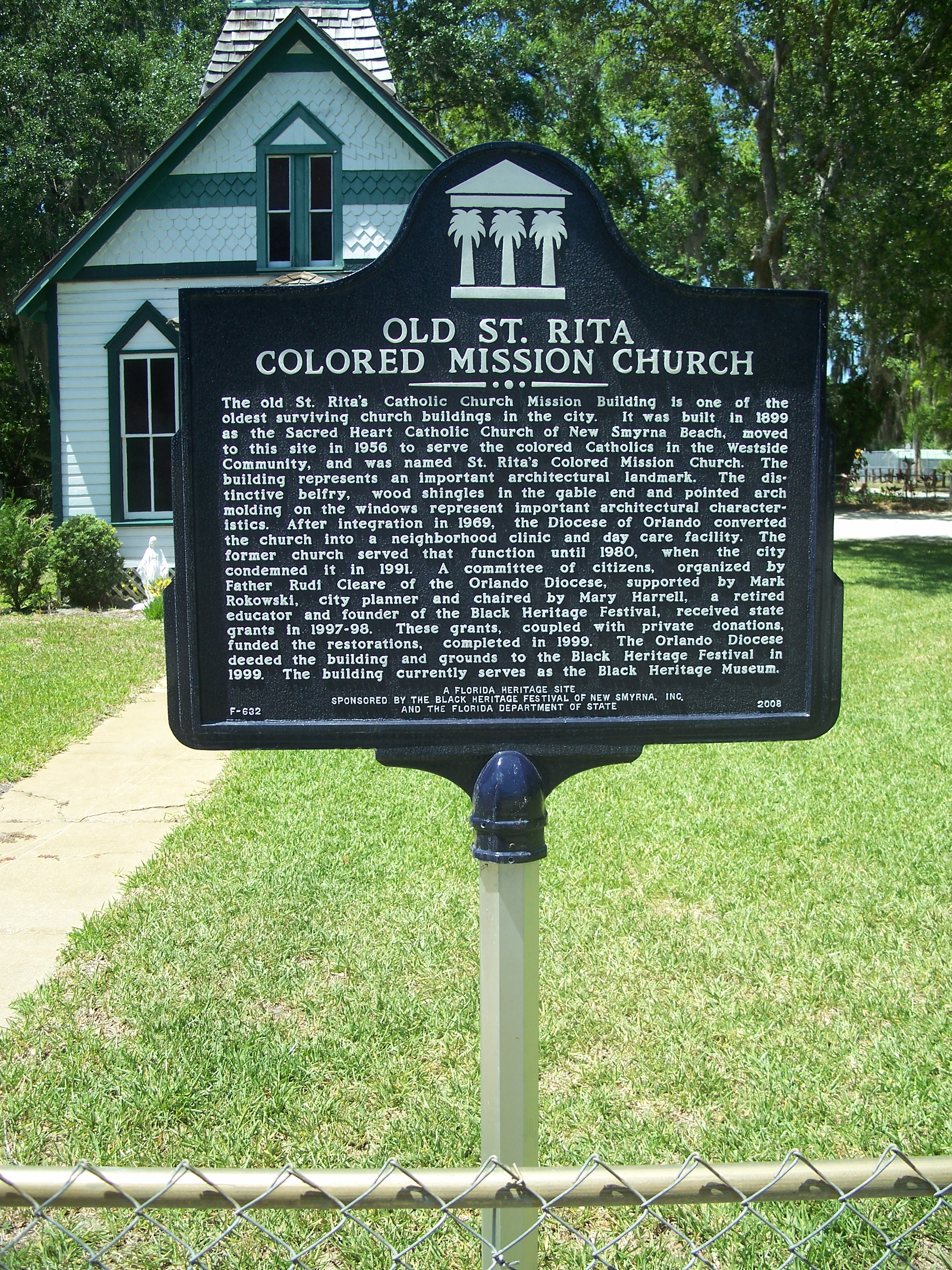 Historic marker in front of the St. Rita's Colored Catholic Mission, now a Black Heritage Museum, in New Smyrna Beach, Florida.